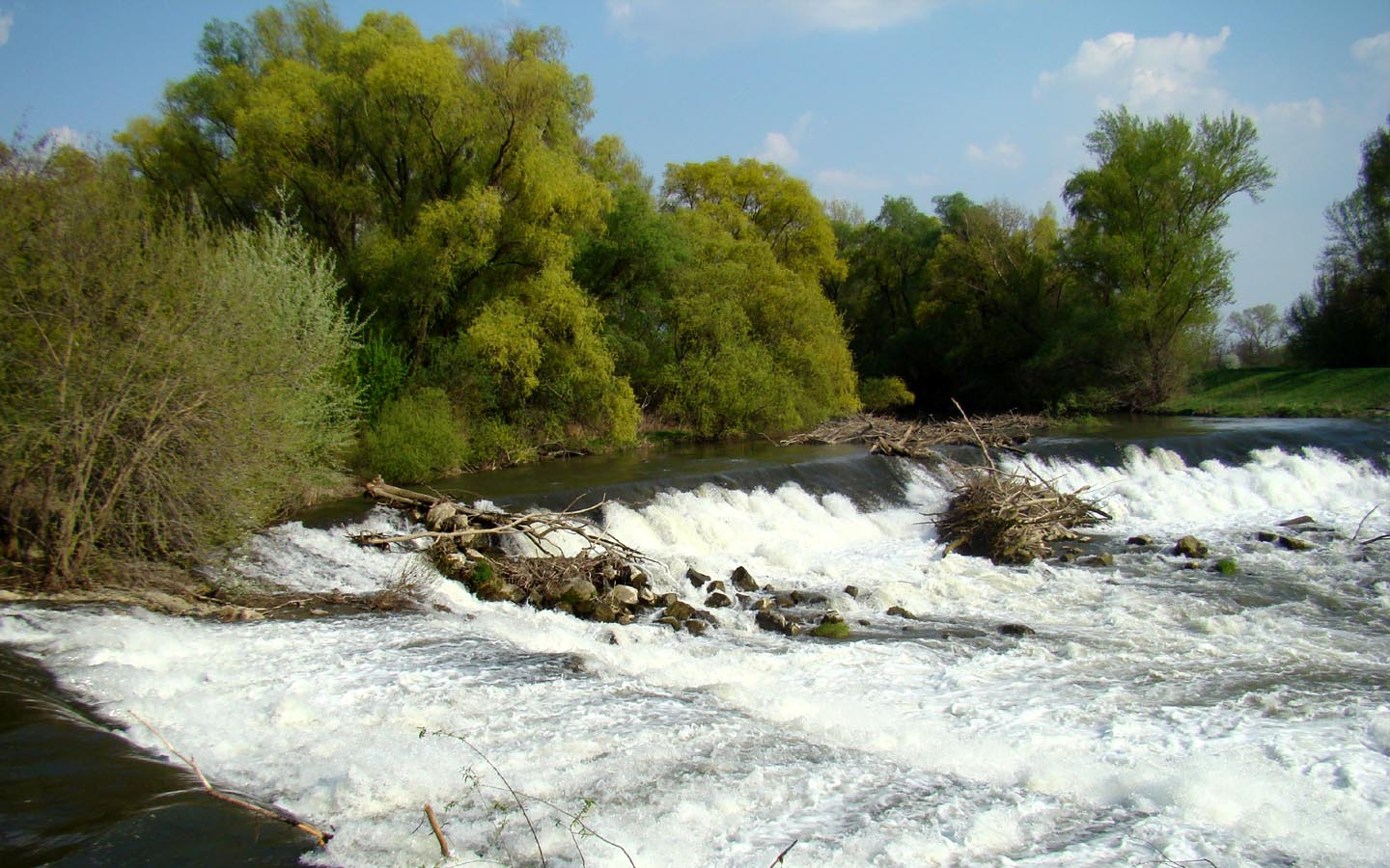 Water cascade Zúgov - Nové Zámky.